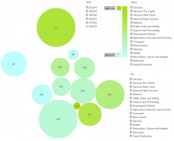 Screenshot of expenditure map app, using .uk data